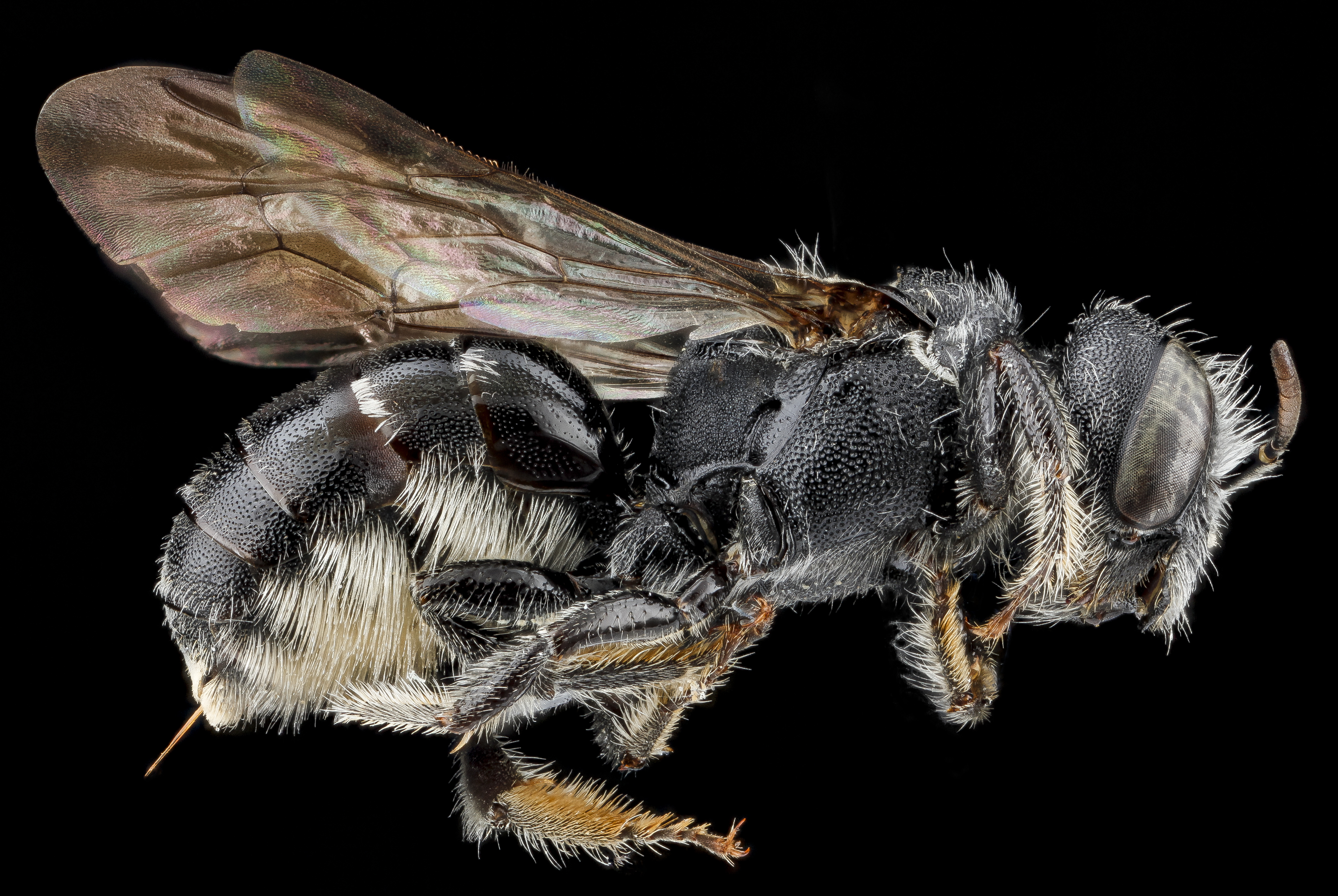 Hoplitis micheneri, female. Richmond County, North Carolina